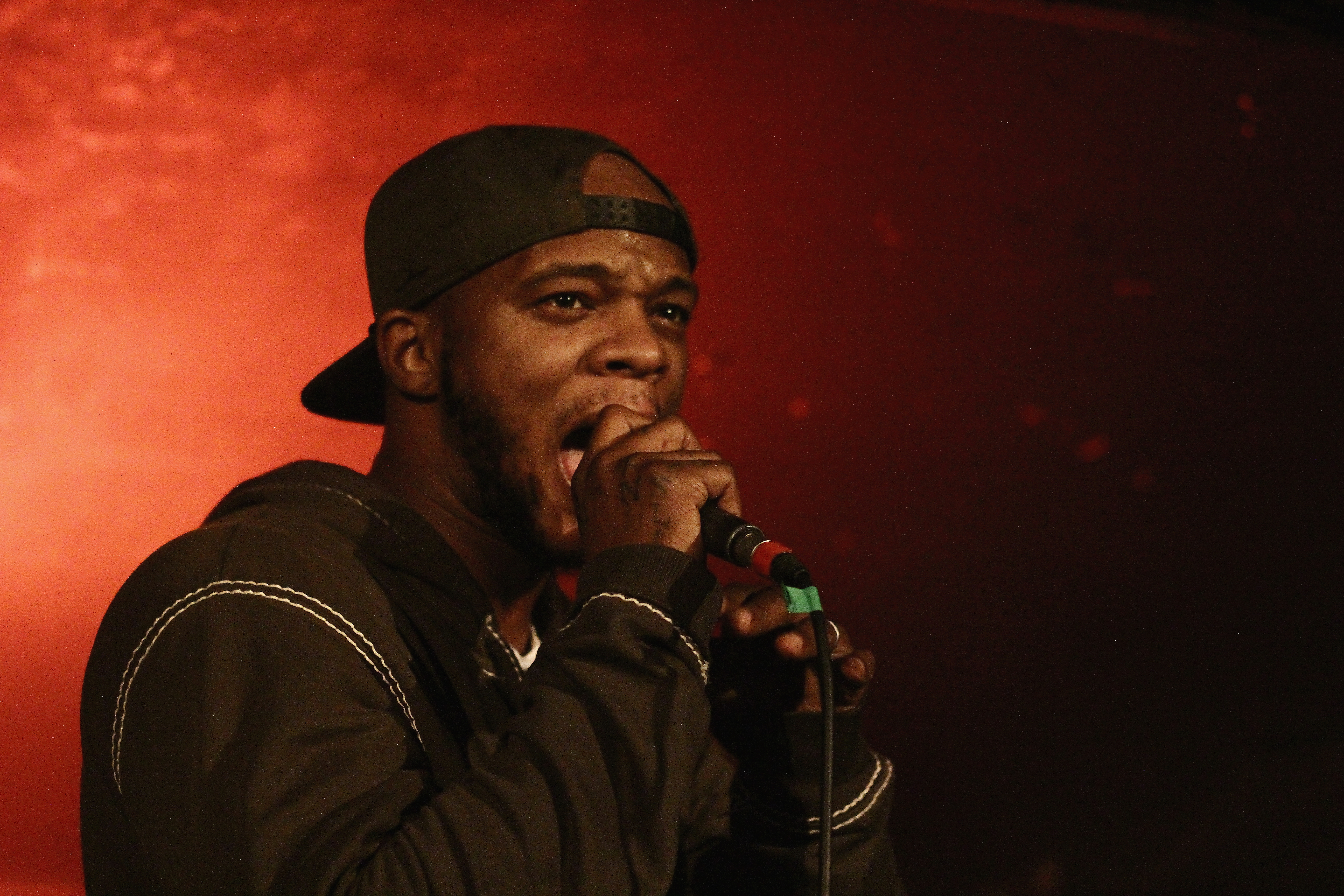 Papoose, Live at Glaz'Art, Paris, in December 13, 2013